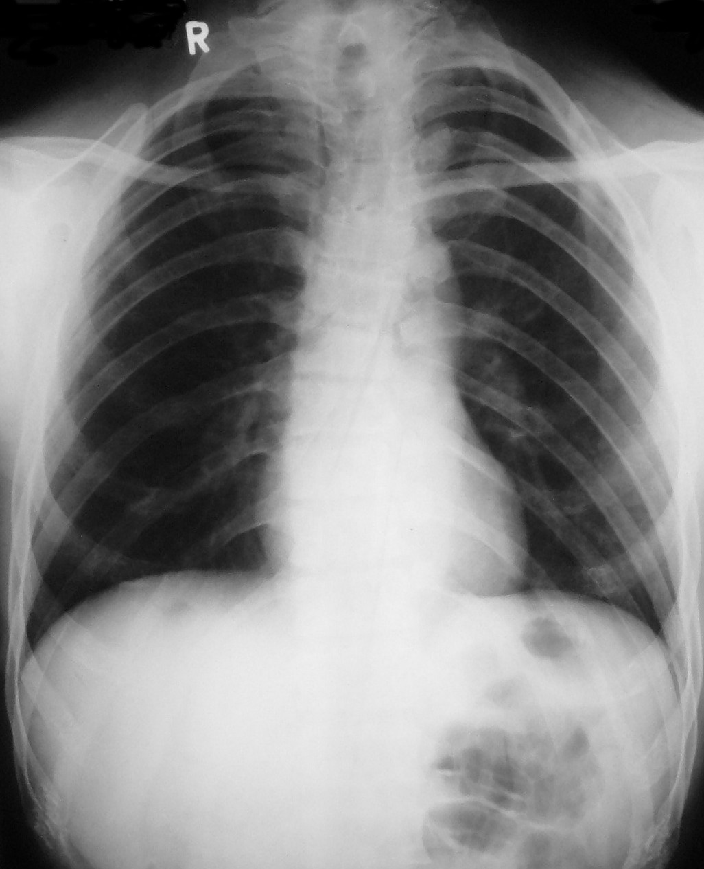 Chest radiograph (PA View) of the patient showing thinning and hypoplasia of the clavicles and bell shaped rib-cage.